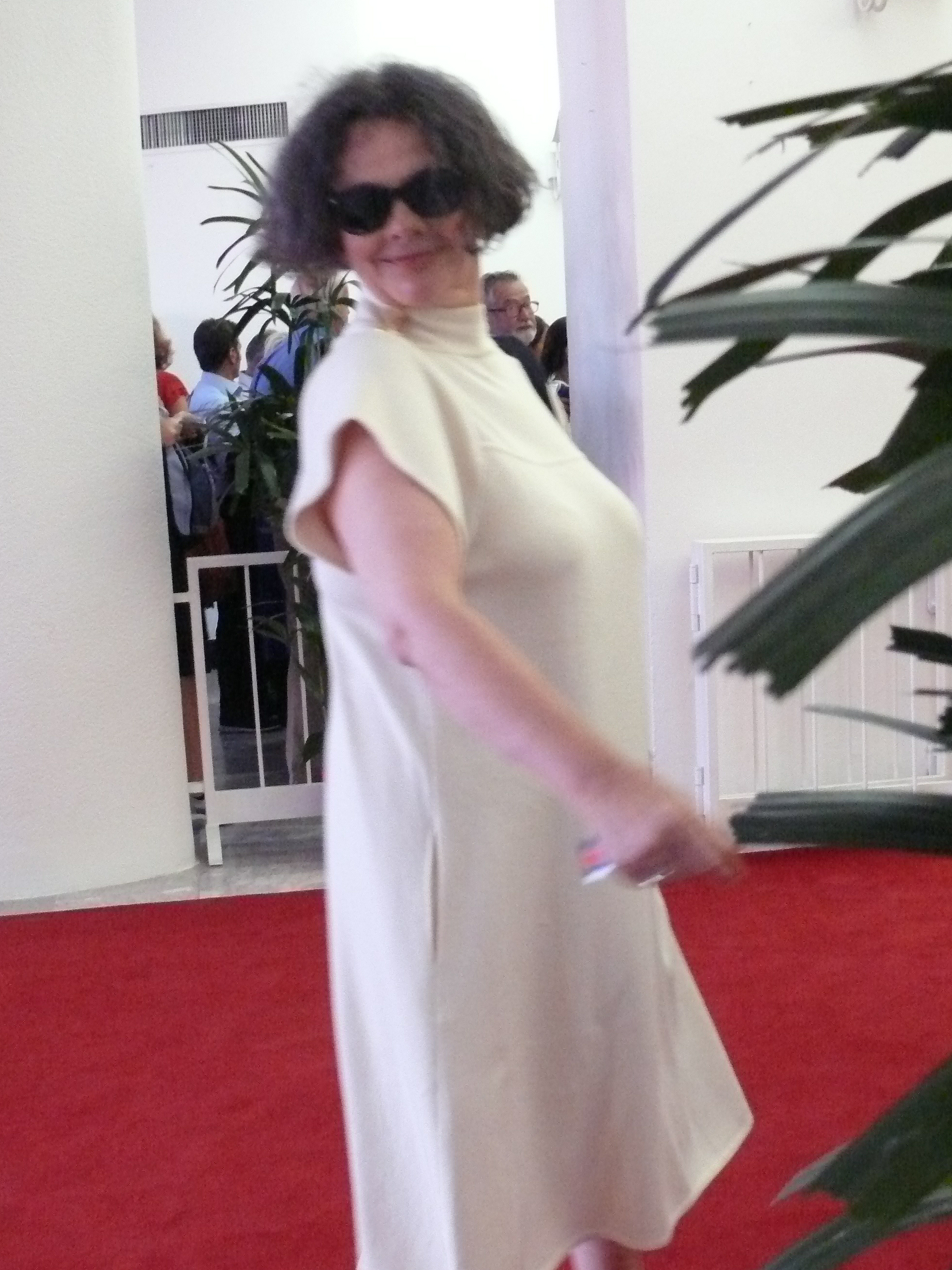 Heidi Baratta